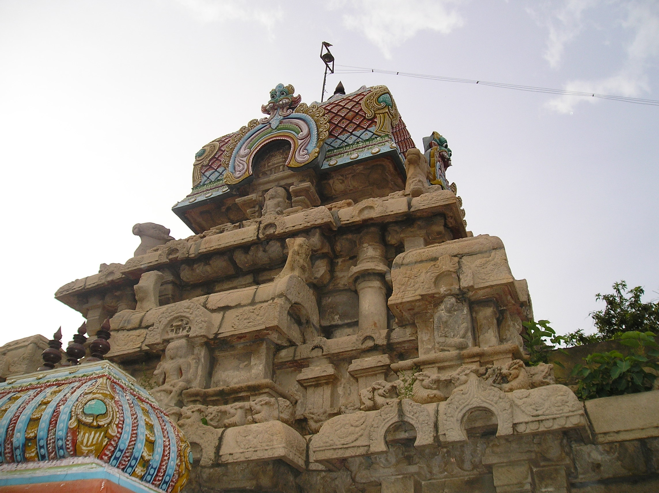 Pictures of Thillaistanam Temple